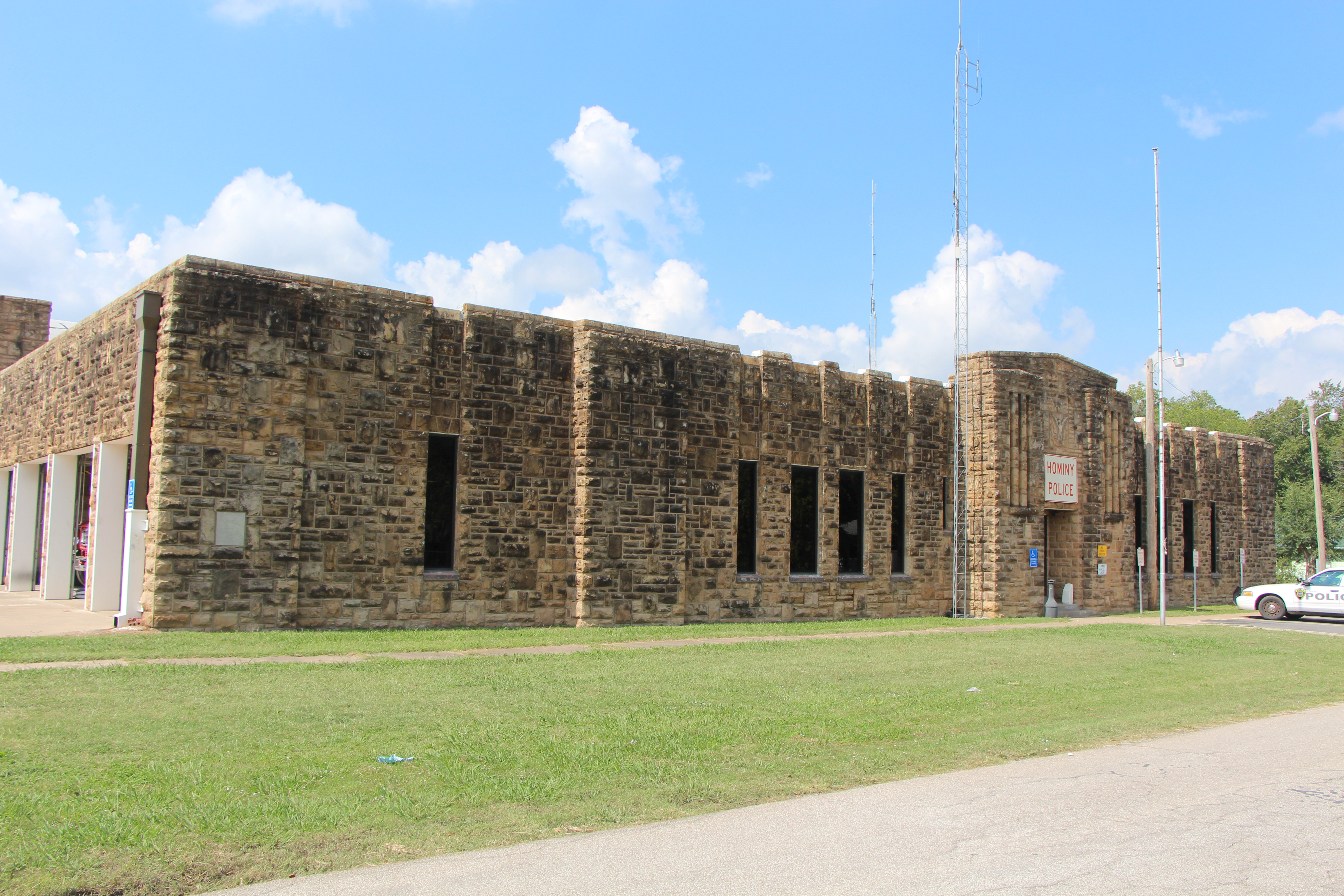 Hominy Armory, 201 N. Regan St. Hominy